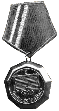 CRI Medal "For the defense of Grozny"